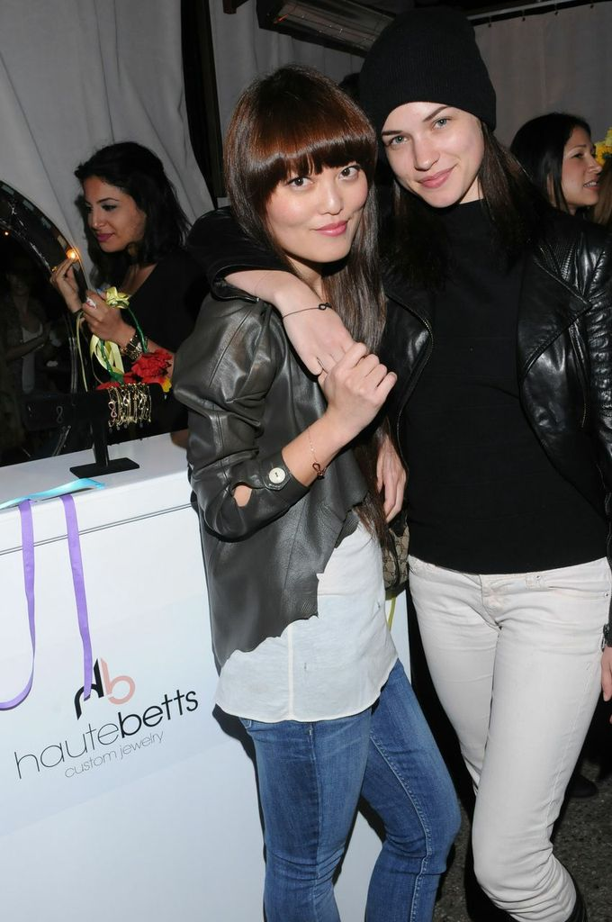 Hana Mae Lee and Alexis Knapp at the Petit Ermitage Hotel in West Hollywood in 2013